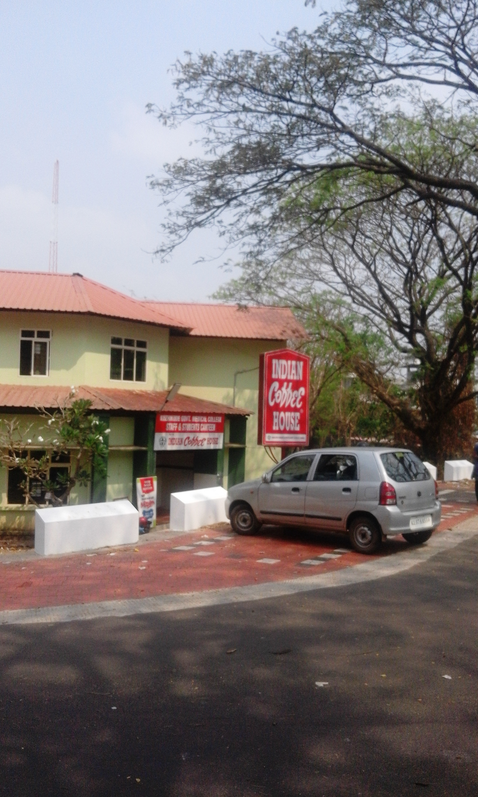 Kozhikode, Kerala province, India.